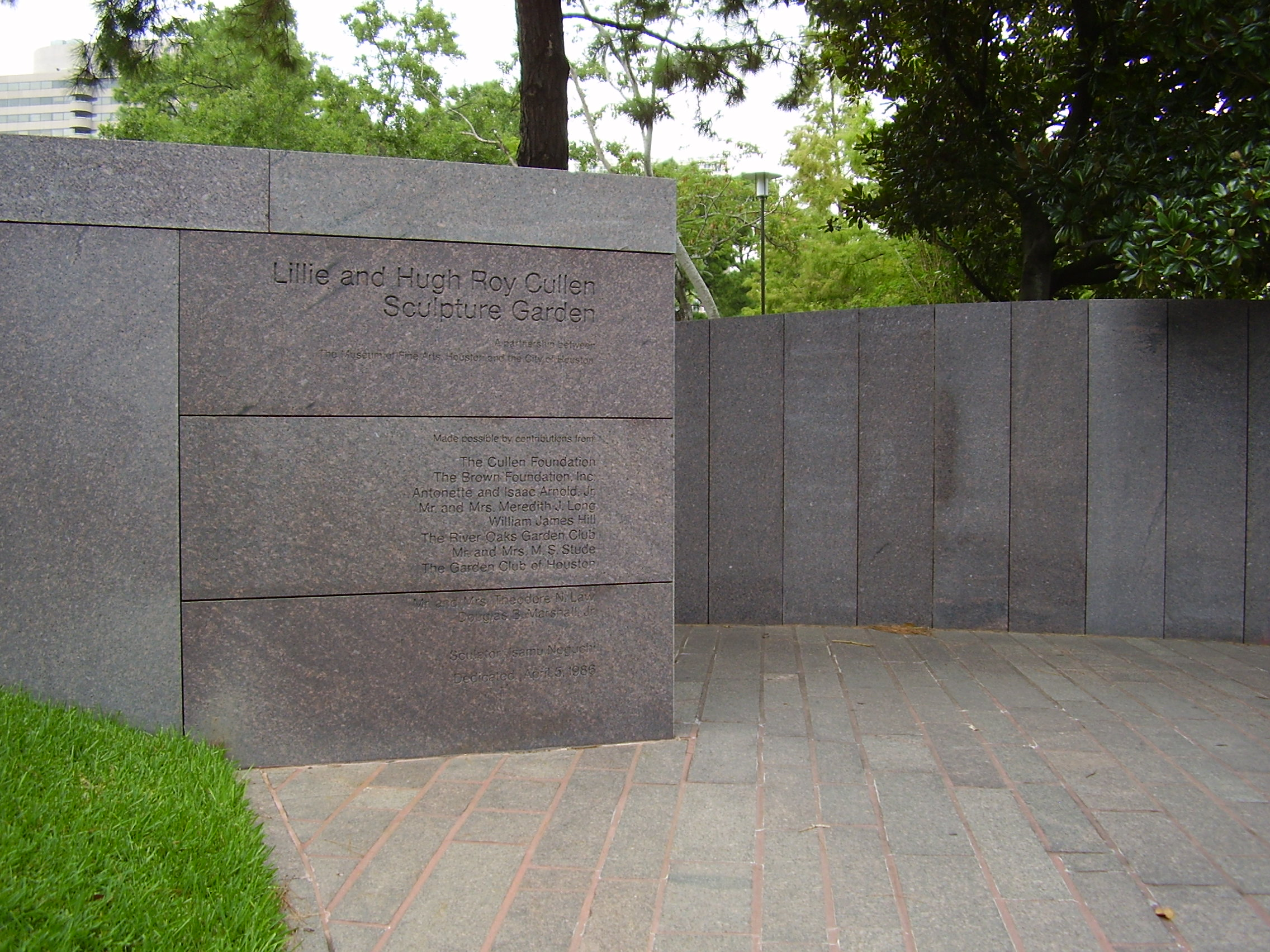 Lillie and Hugh Roy Cullen Sculpture Garden